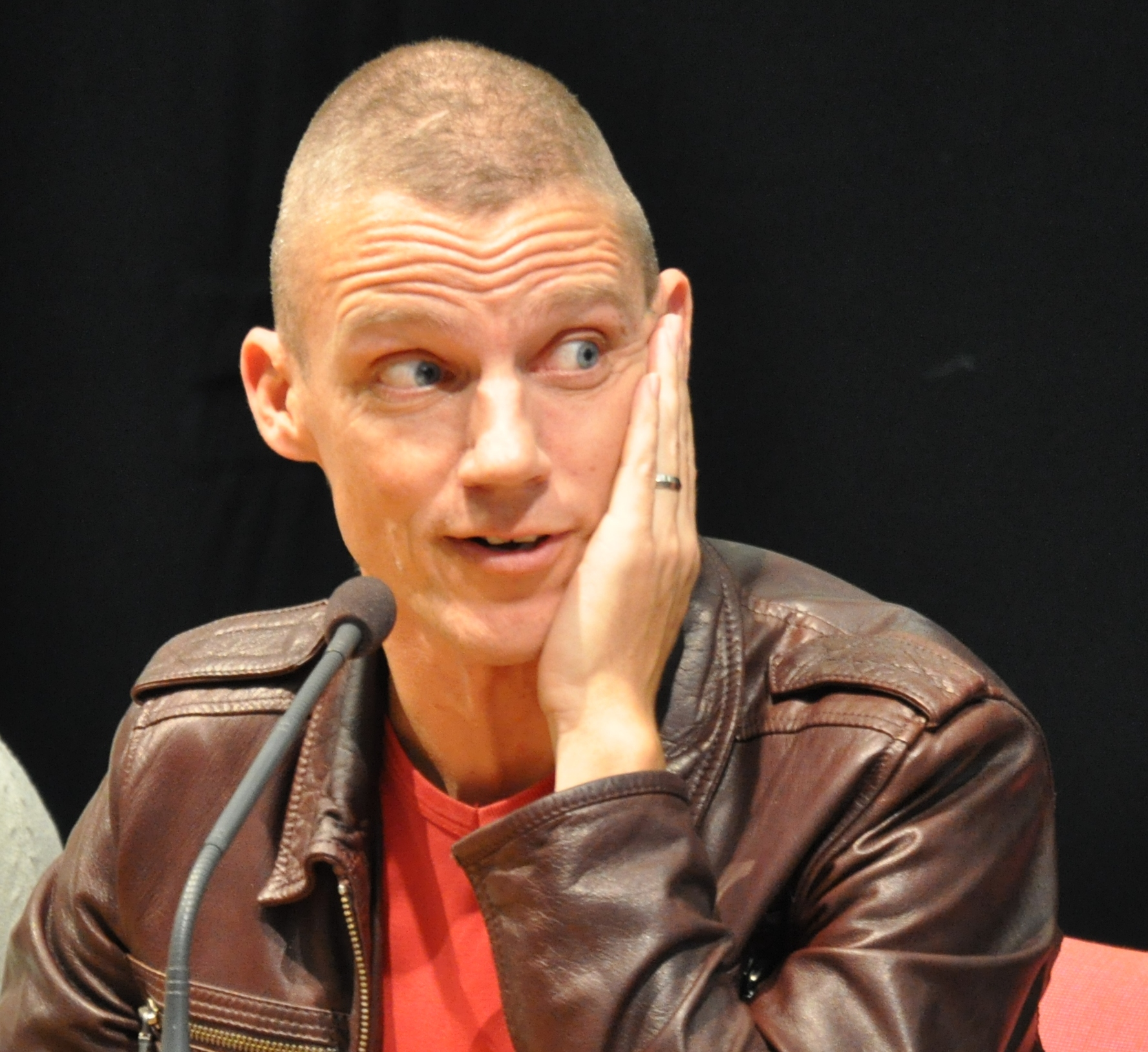 Finnish writer Jari Järvelä at the Turku Book Fair 2009.